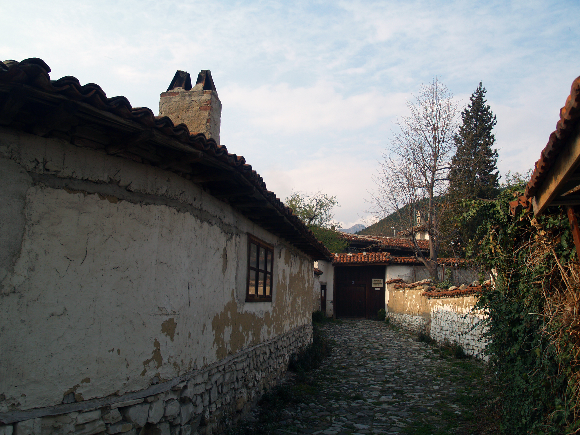 The entrance to the house-museum of Dobri Chintulov in Sliven